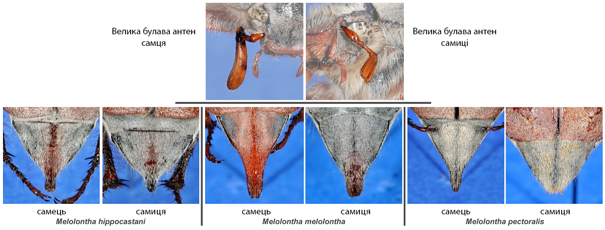 Ukrainian translation based on